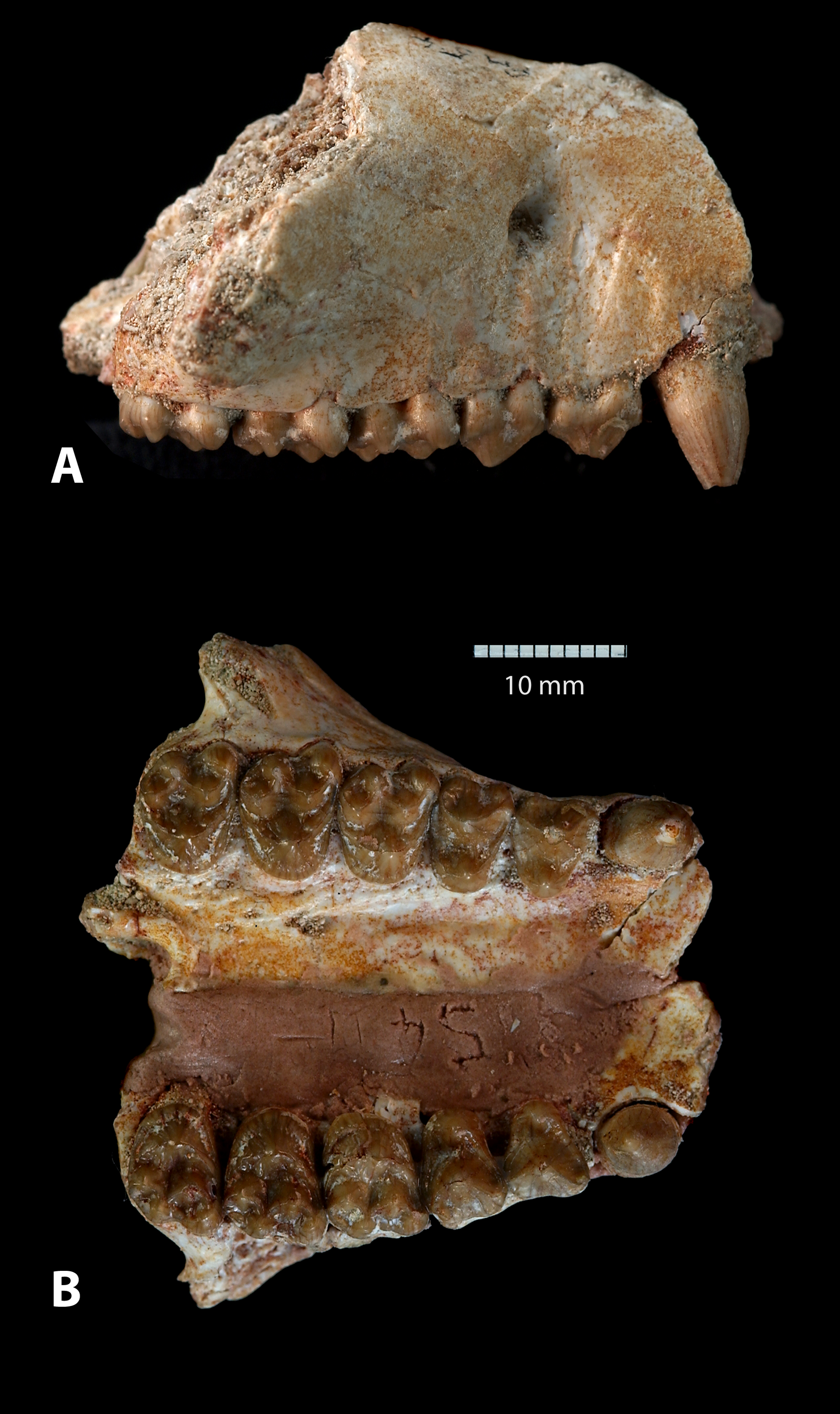 Ocepeia daouiensis, Selandian, Phosphate level IIa of Sidi Chennane, Ouled Abdoun Basin, Morocco. MNHN.F PM54-4 maxillary in labial (a) and occlusal view (b). Cheek teeth: right and left C1, P3–4, M1–3. Scale bar: 10 mm.